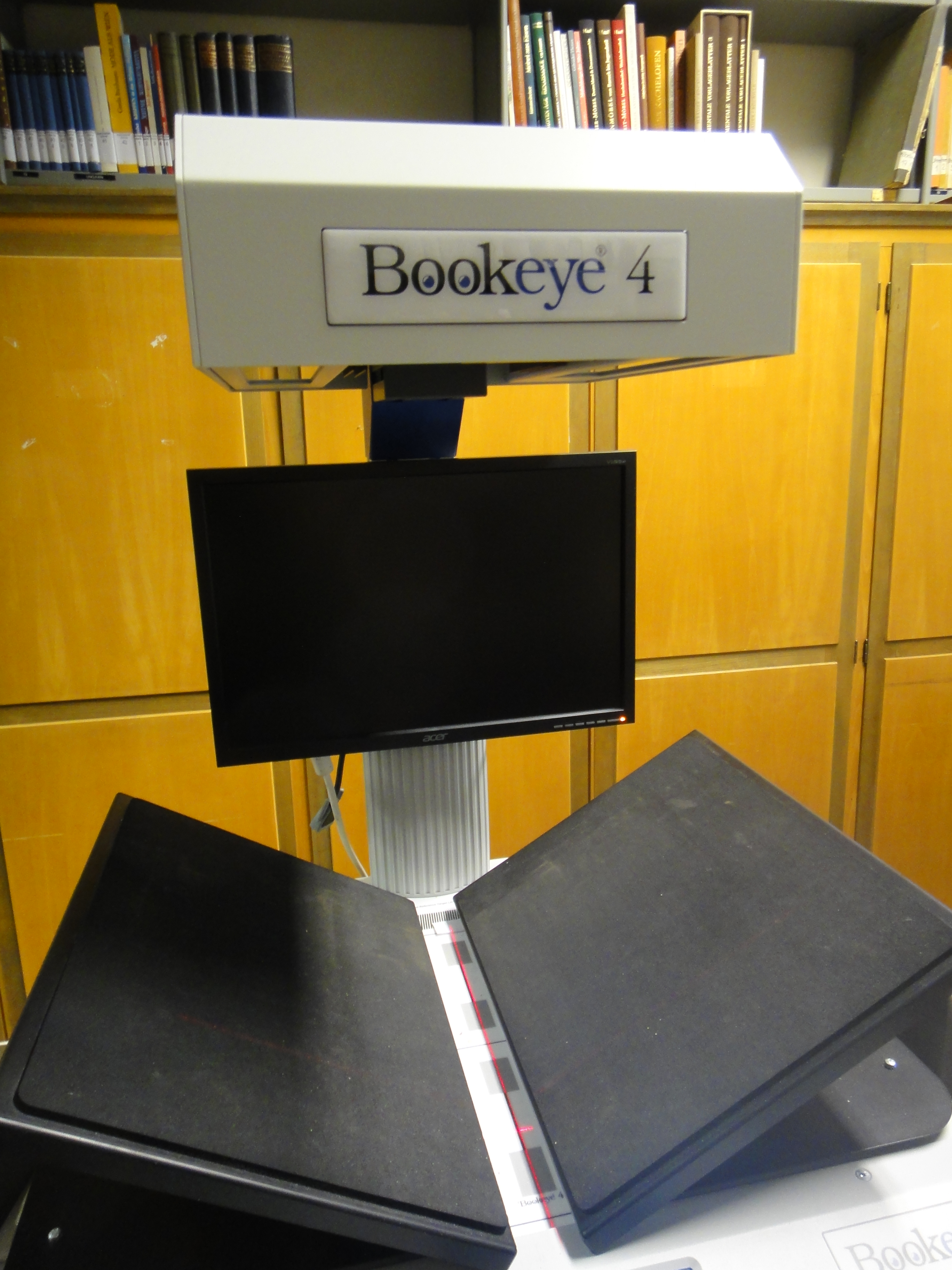 Bookscanner at the Austrian Bundesdenkmalamt inside the Hofburg.